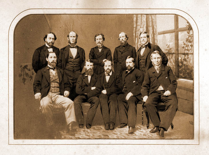 Salt print of the 1848–1850 New York Knickerbockers. Taken December 1862.Standing left to right: Duncan Curry, Walter T. Avery, Henry T. Anthony, Charles H. Birney, and William H. Tucker. Seated left to right: Charles Schuyler DeBost, Daniel "Doc" Adams, James Whyte Davis, Ebenezer R. Dupignac, Jr., and Fraley C. Niebuhr.